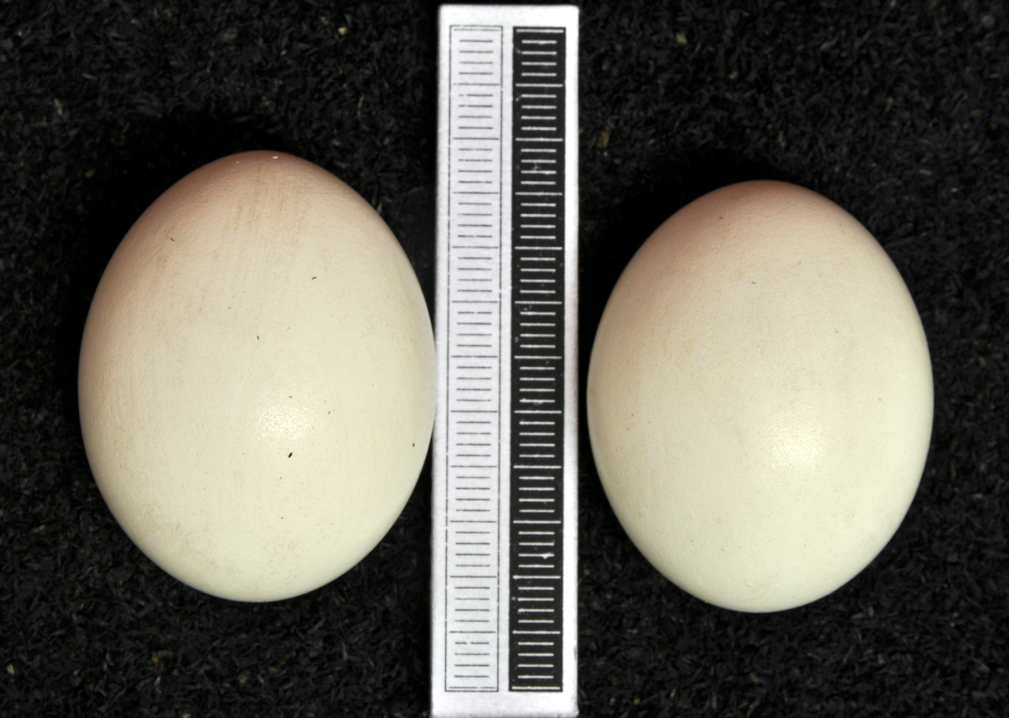 Brown hawk-owl Ninox scutulata , egg, Coll. Museum Wiesbaden